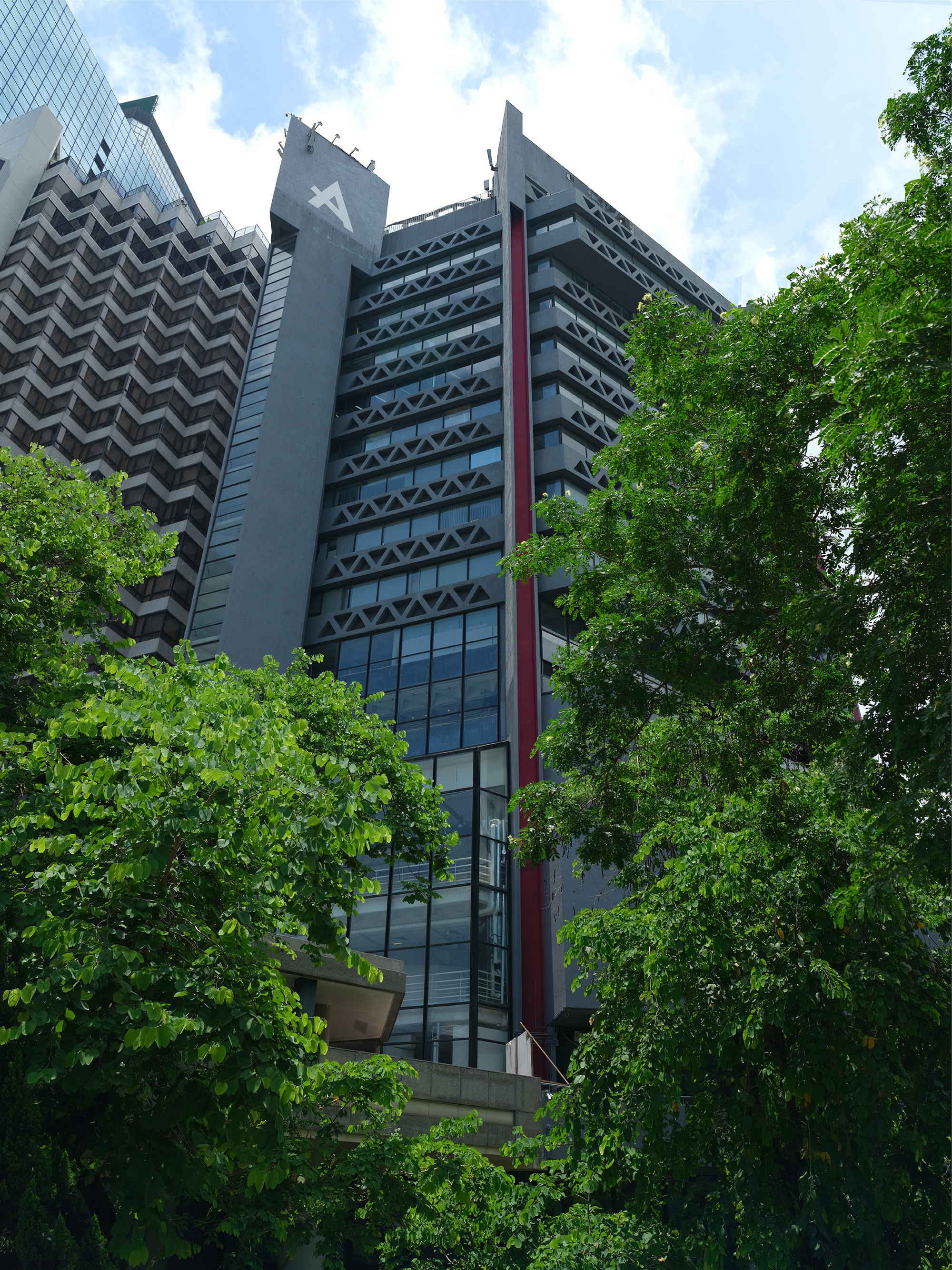 Building